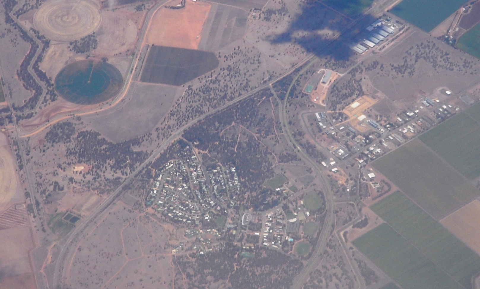 Coleambally, New South Wales, Australia